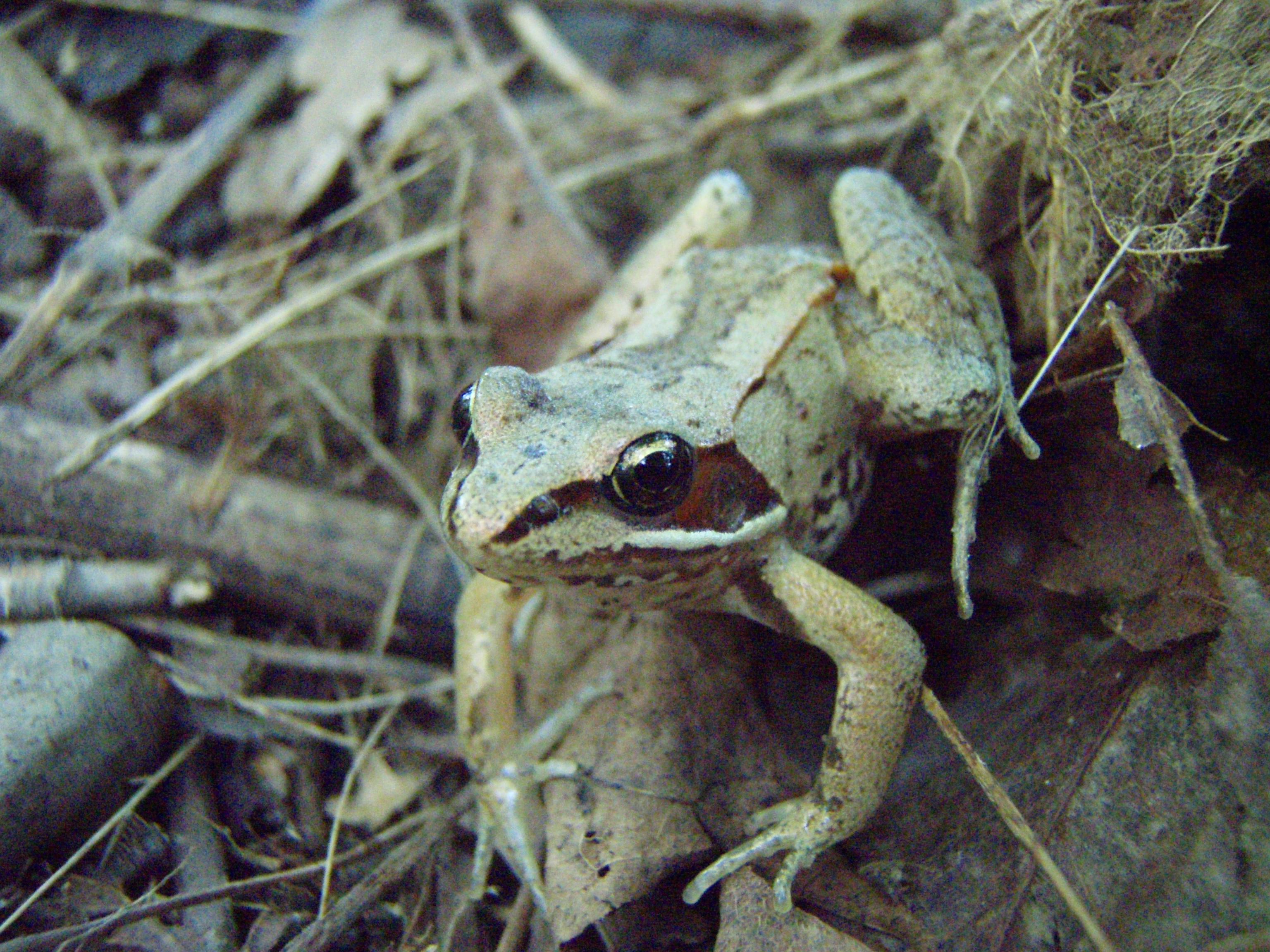 Wood frog (Rana sylvatica)